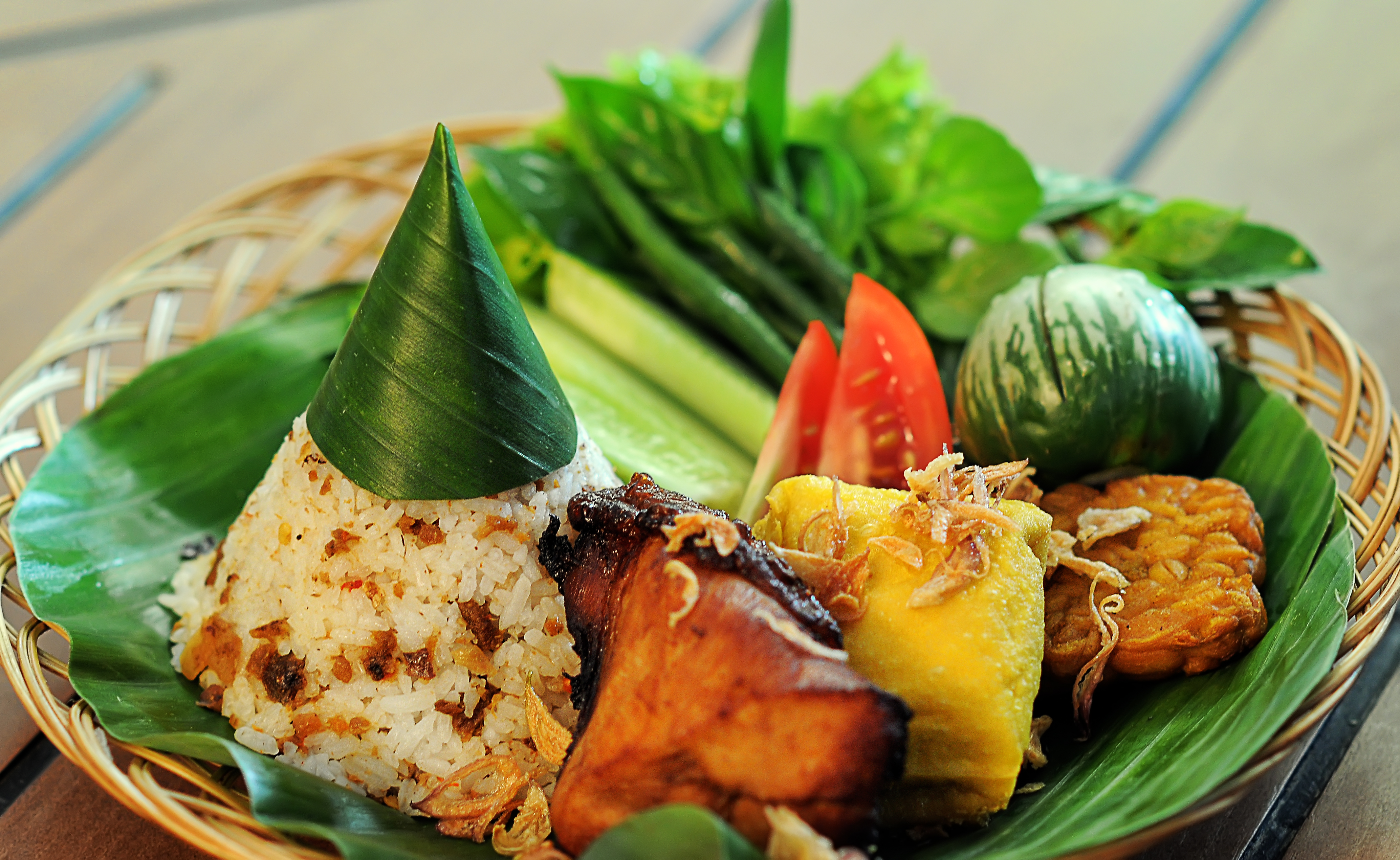 Makanan khas Sunda, Bandung, Jawa Barat.